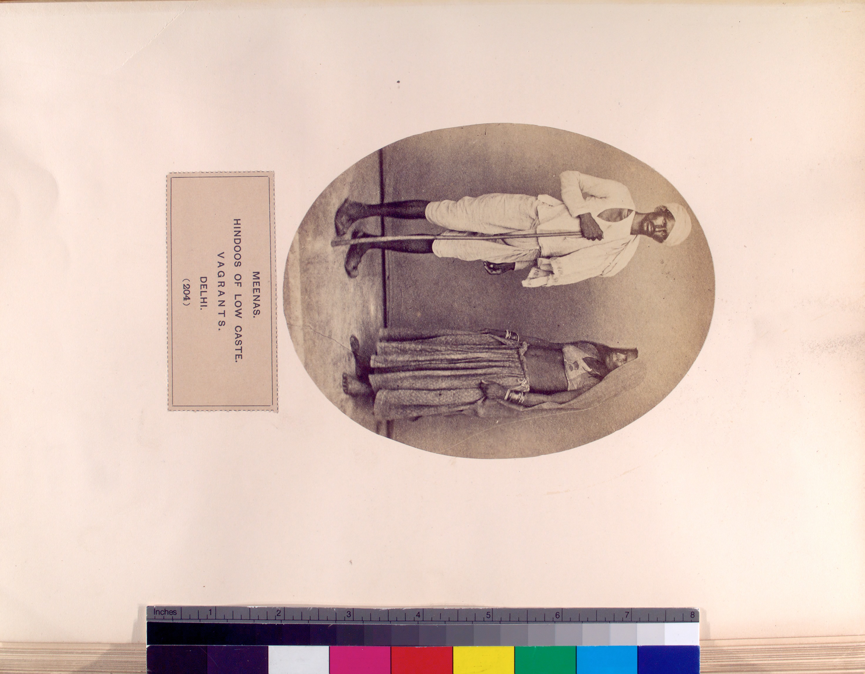 Letterpress label measures 40 x 85 mm.